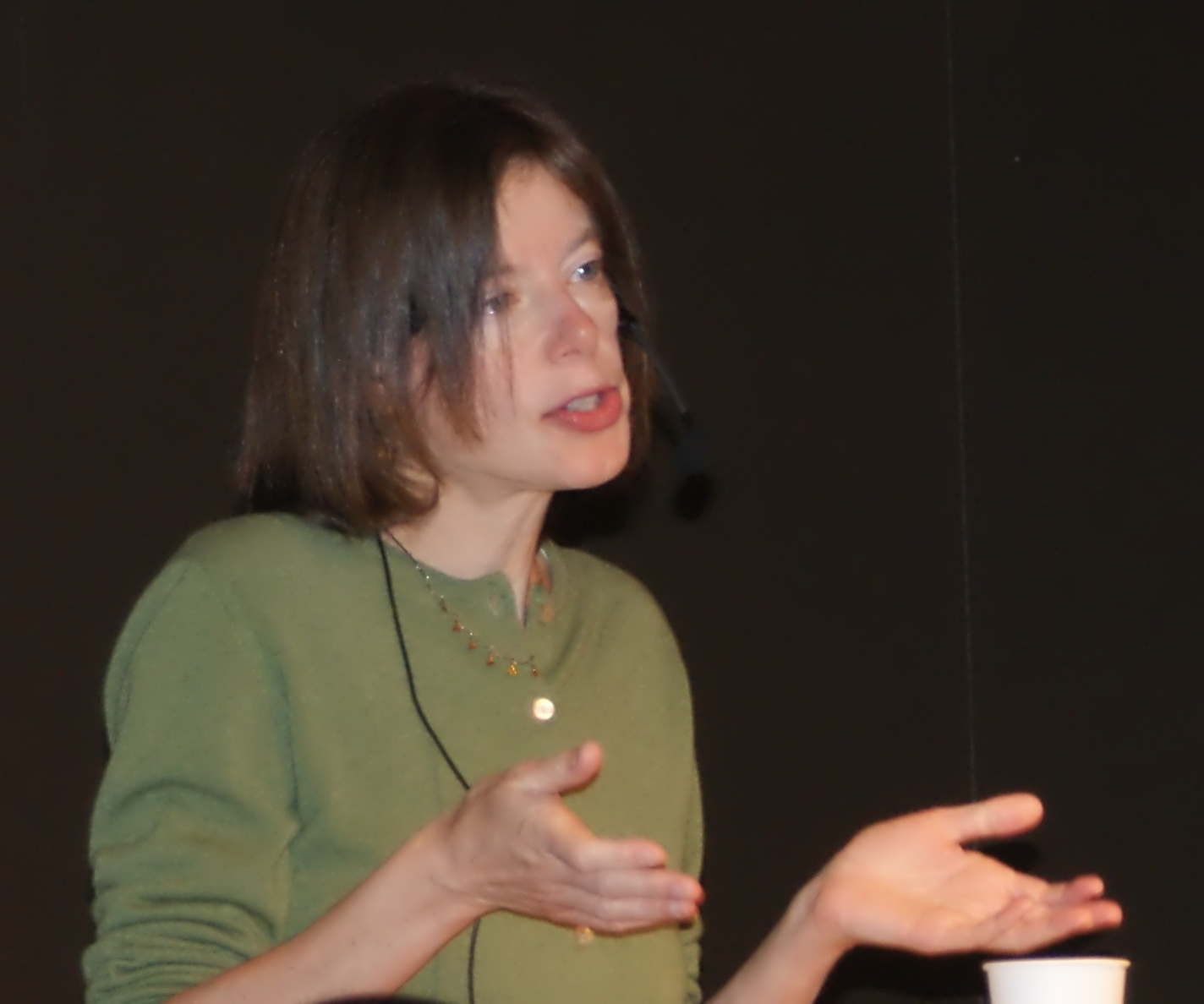 Susan Faludi, at the book fair in Gothenburg, Sweden 2008.